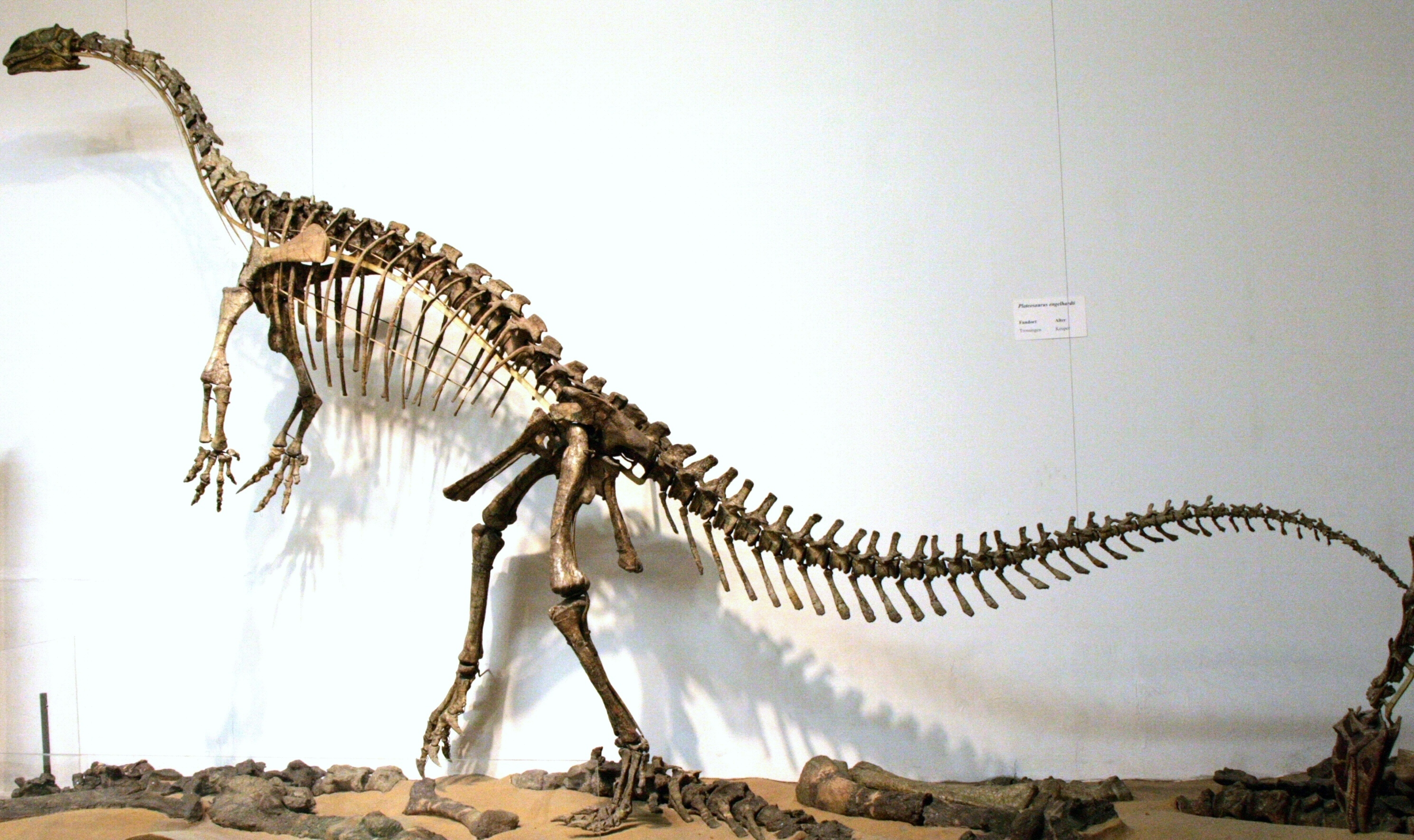 Plateosaurus engelhardti skeletons "Skelett 2" on exhibit at the museum of the Institute for Geosciences of the Eberhard-Karls-University Tübingen, Germany. "Skelett 2" is a composite from 2 individuals from Trossingen, Germany. Mounts created under the direction of Friedrich von Huene.